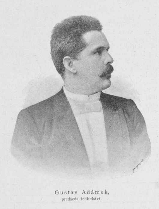 Portrait of Gustav Adámek (1849-1905), Czech entrepreneur and politician, shown as a chairman of the board of the Municipal Savings Bank in Prague.